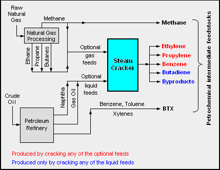 Diagram depicting the how petrochemical plant feedstocks are obtained.